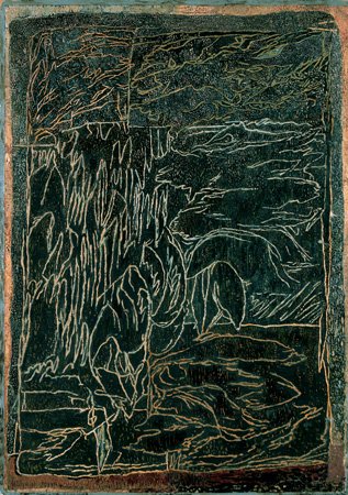 Painting by Ilka Gedő at the Hungarian National Gallery TURRETED ROSE GARDEN Oil on cardboard, 58 x 42 cm